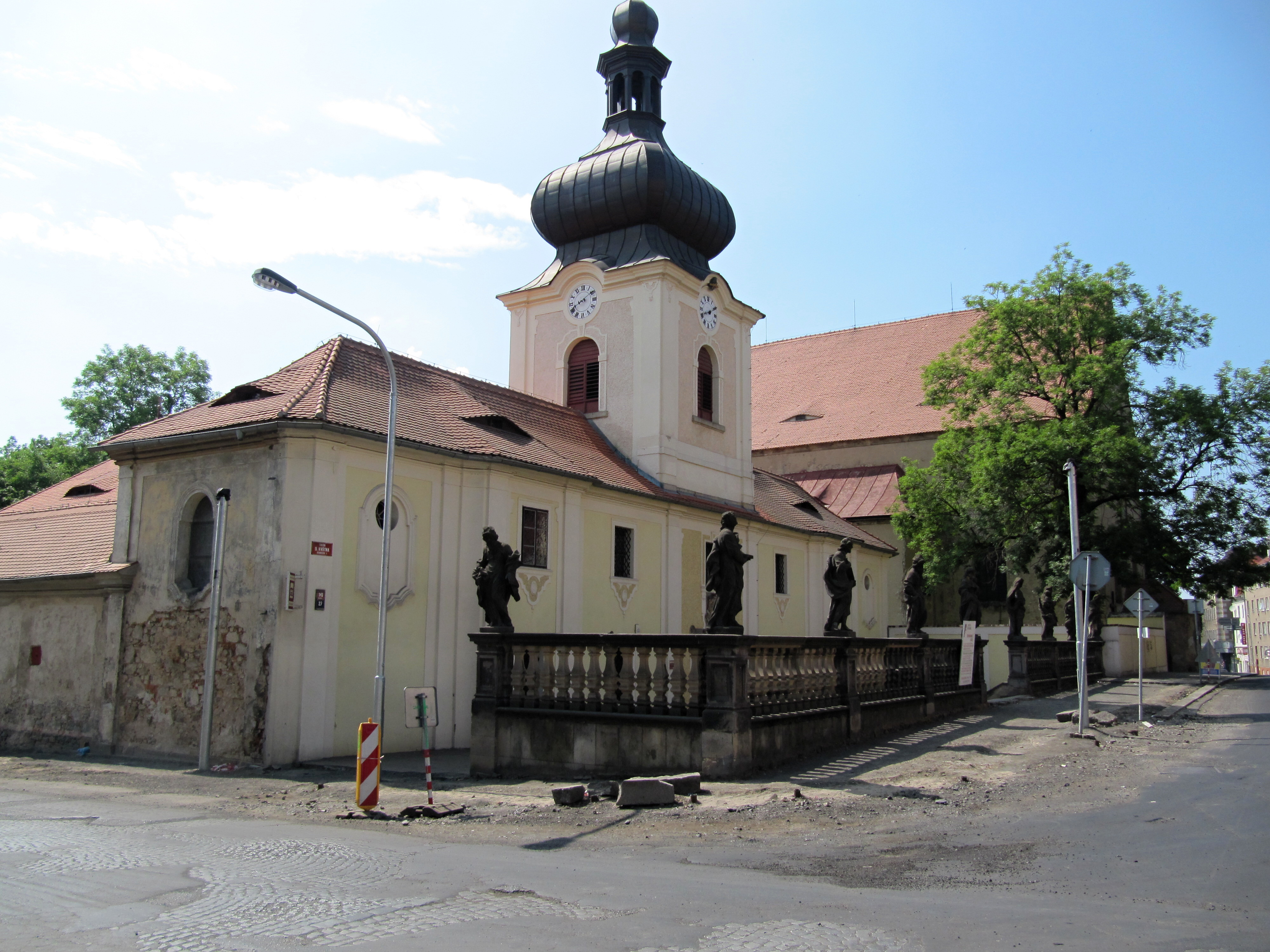 Rumburk in Děčín District, Czech Republic. Loretan chapel.